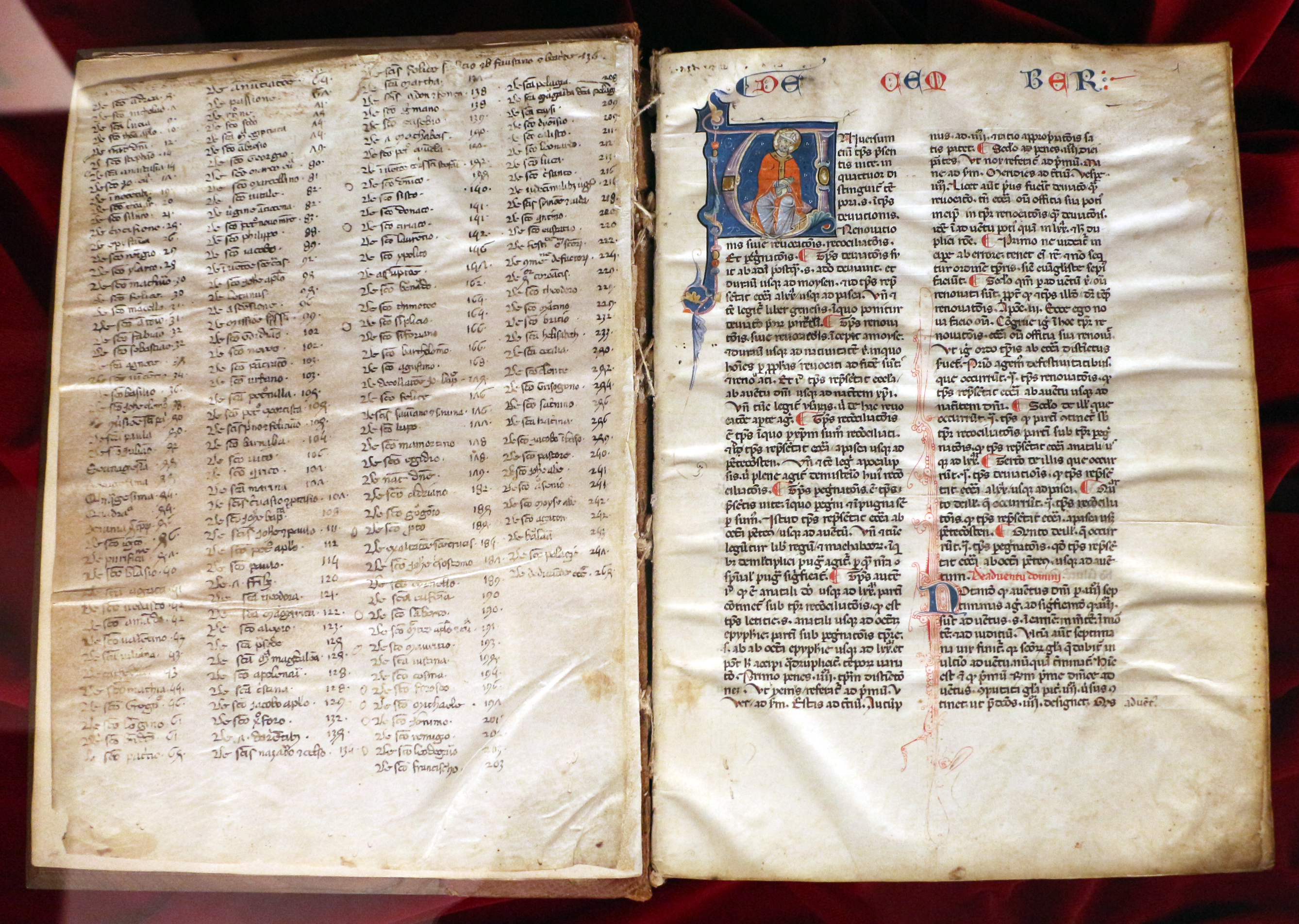 Biblioteca Medicea Laurenziana manuscripts